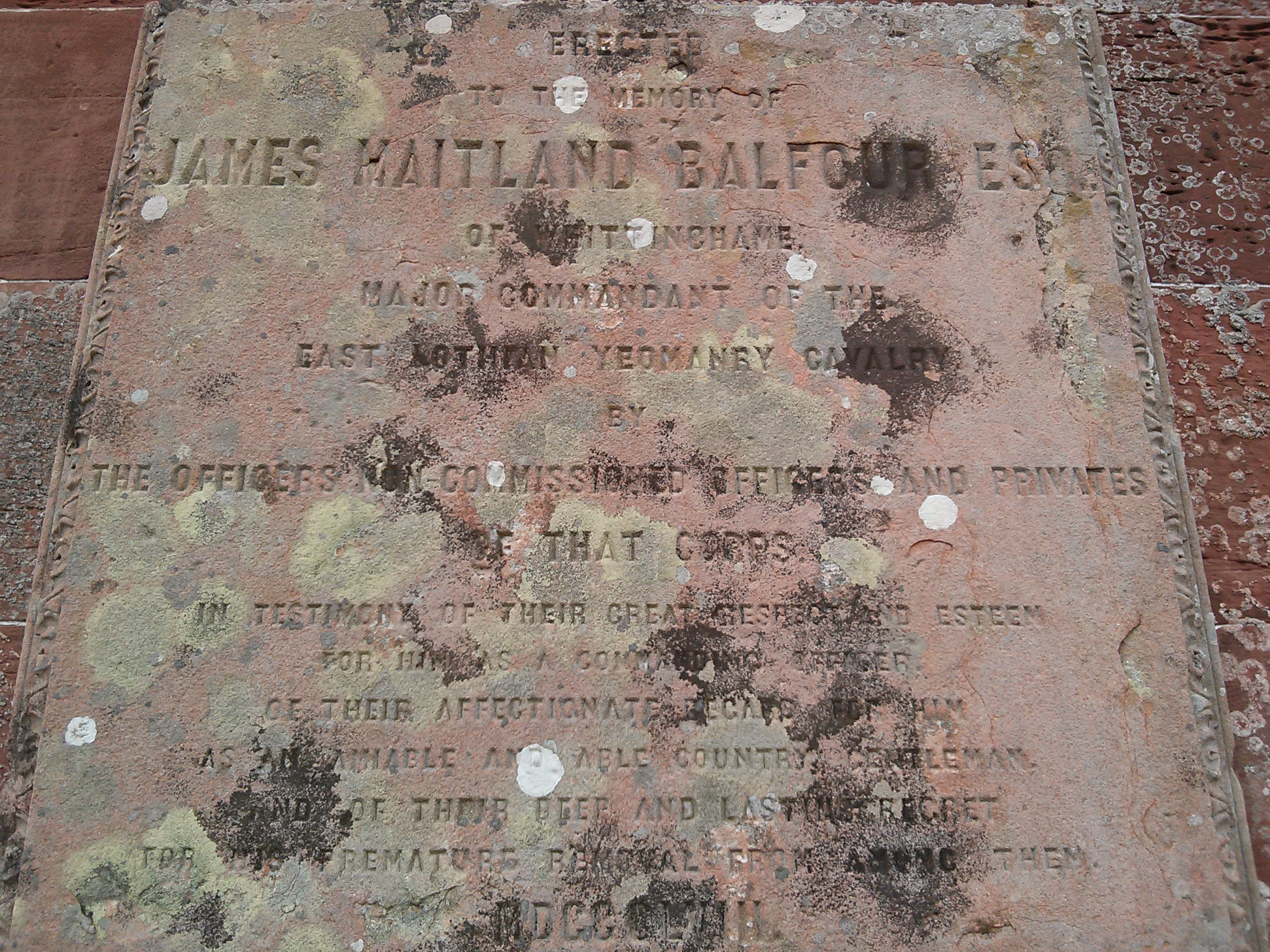 James Maitland Balfour monument near Garvald Scotland